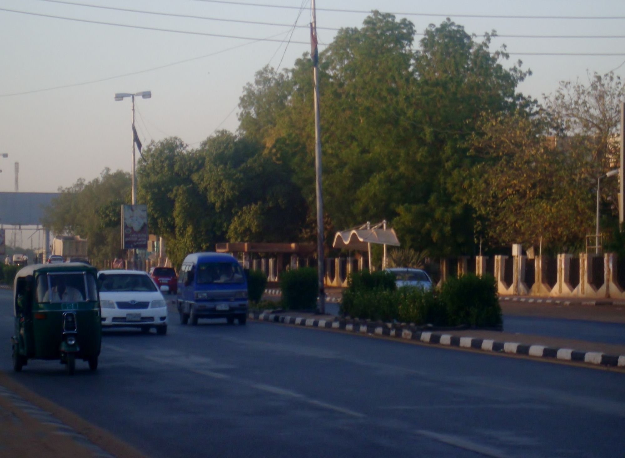 AlKoran Alkareem University -Almorda street - Omudrman - Sudan